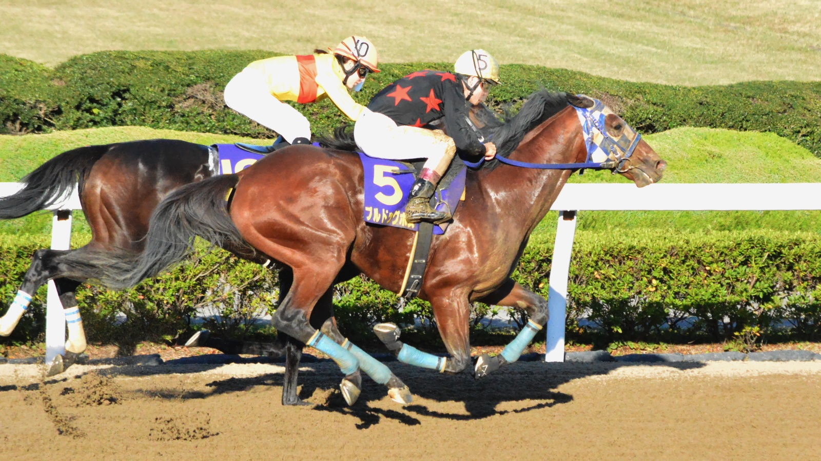 Japanese race horse Bulldog Boss at Urawa racecourse.